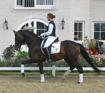 Trakehner stallion, born 2000, by Tambour out of Costa Rica by Maizauber